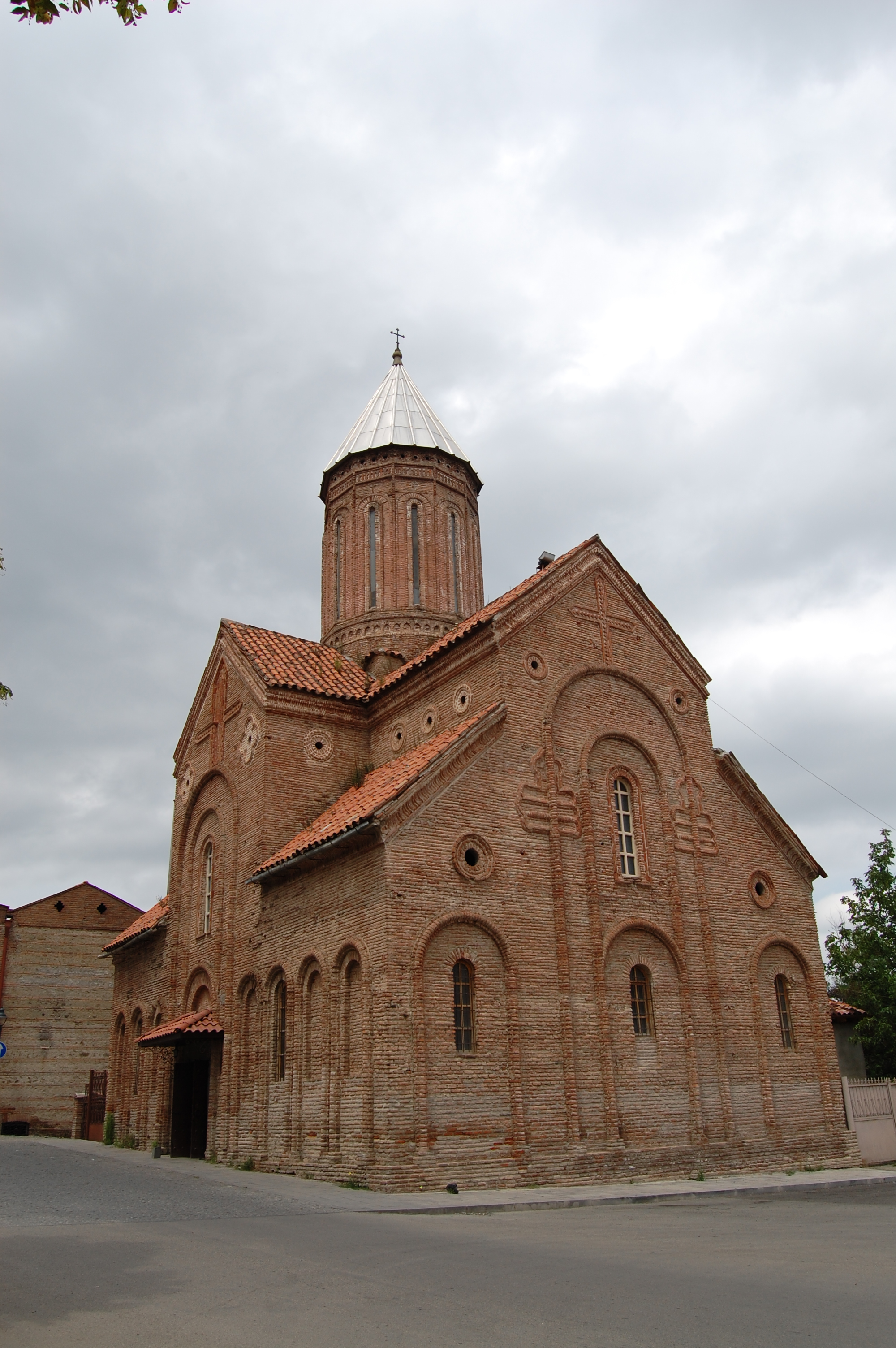 The Theotokos Church in Telavi